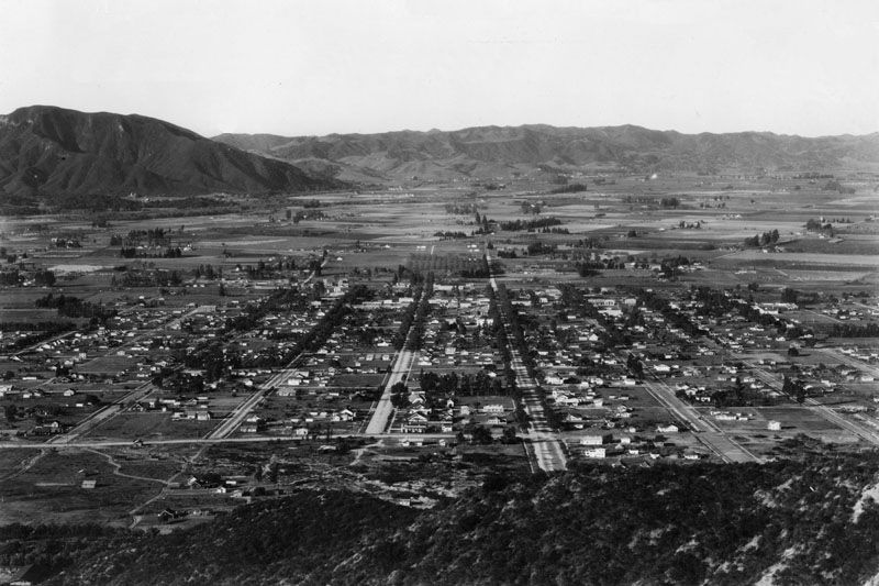 View overlooking Burbank in 1922, taken from the Verdugo Hills.